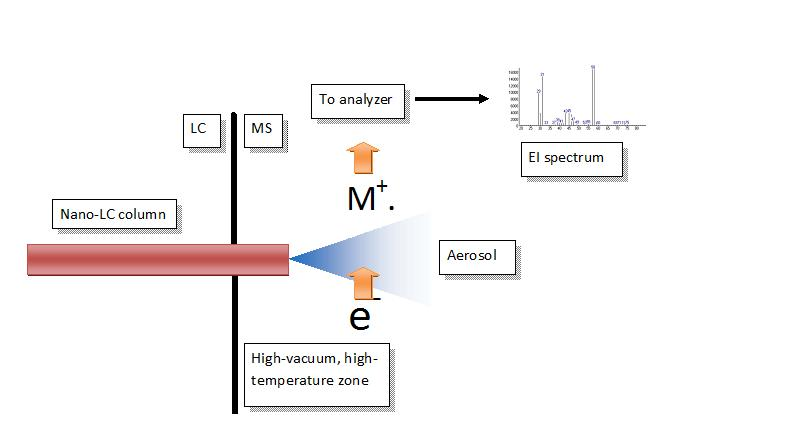 LC-MS Interface